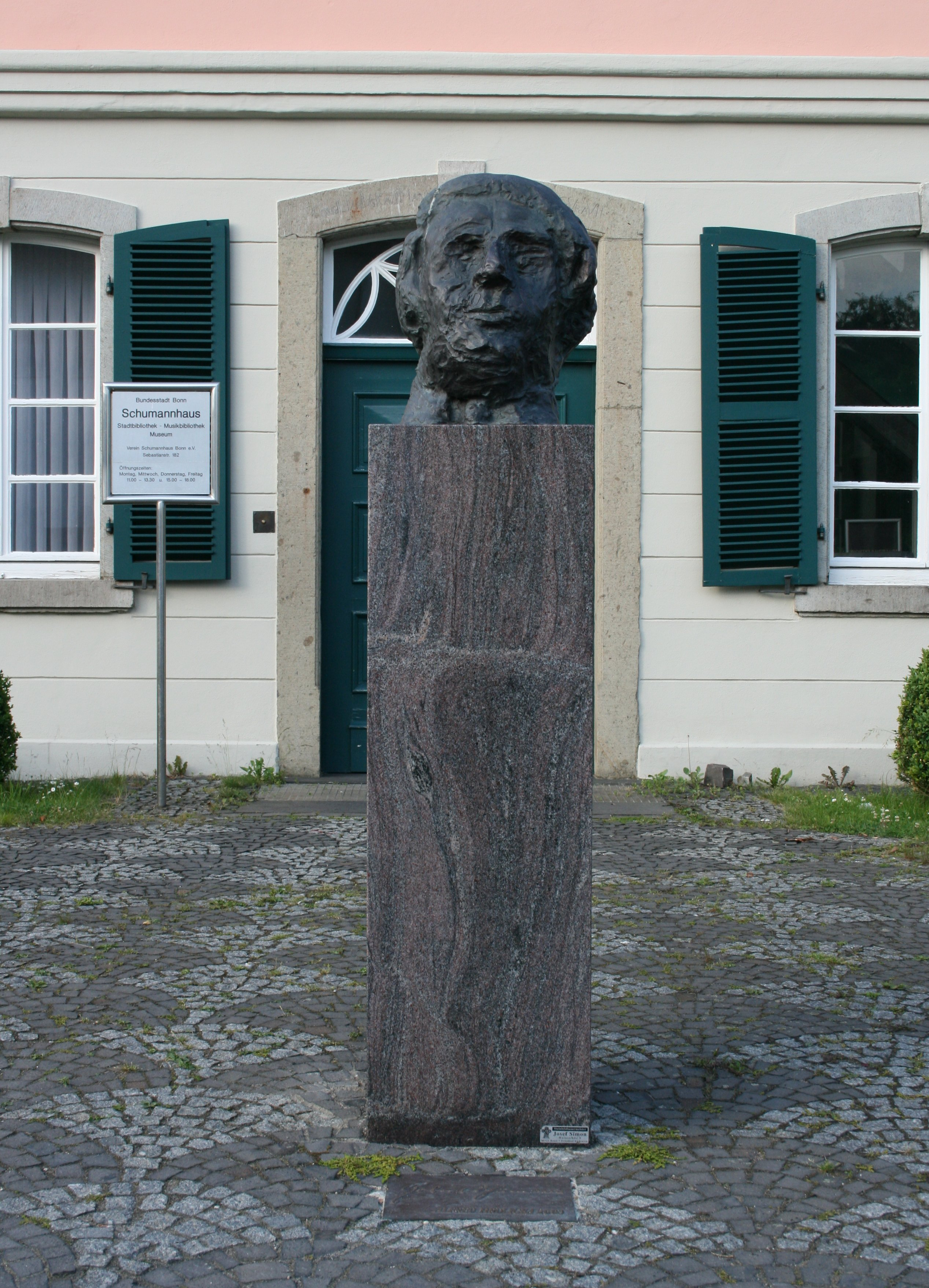 Bust of Robert Schumann in front of Schumannhaus in Bonn, Germany; made by Austrian sculptor and painter Alfred Hrdlicka (1928-2009) in 2003.